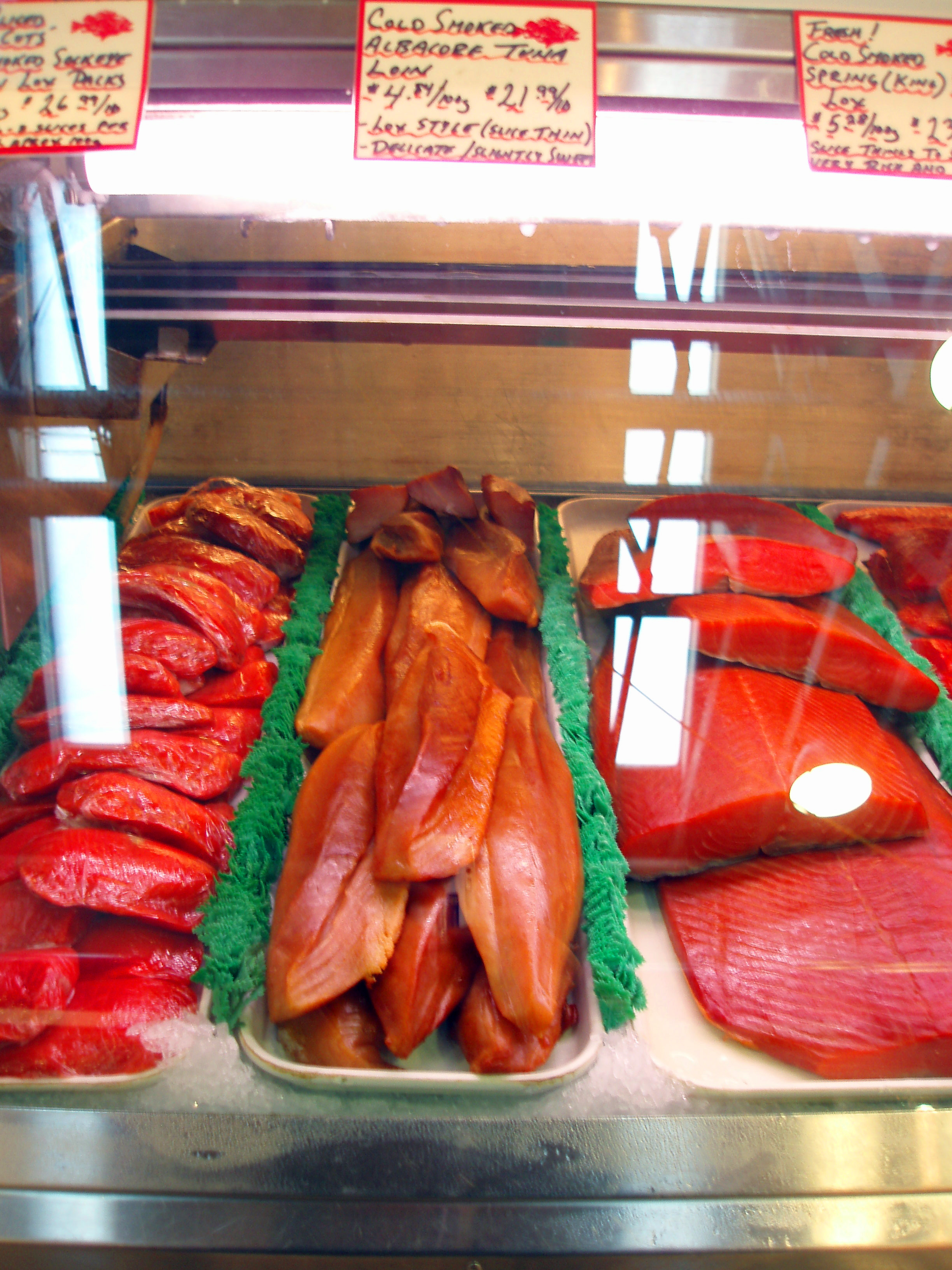 The Granville Island market has some great looking food (Albacore)